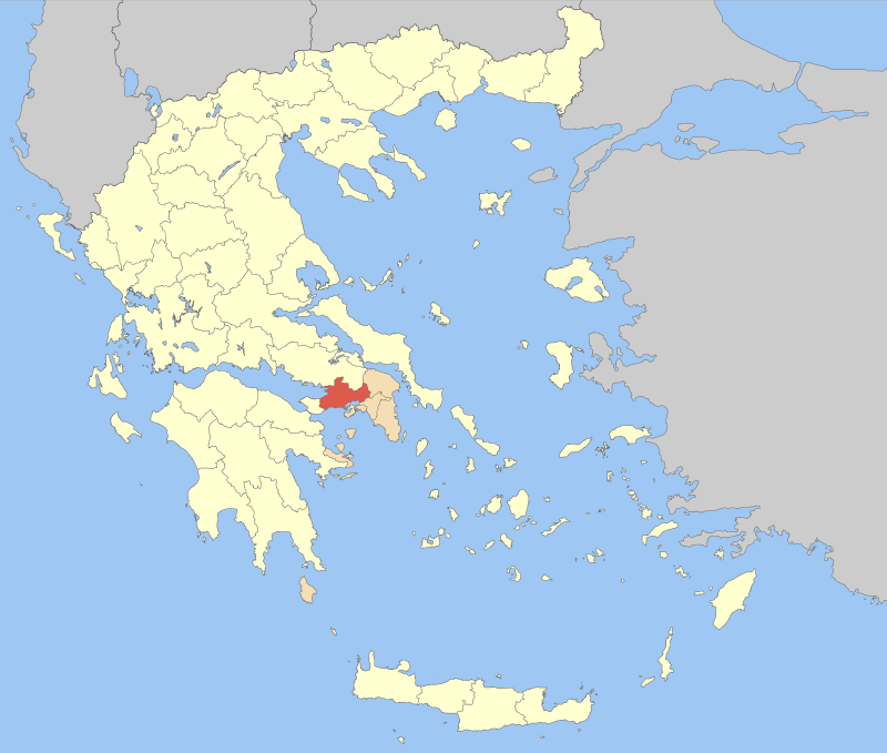 Locator map of West Attica prefecture (Νομαρχία Δυτικής Αττικής) in Greece